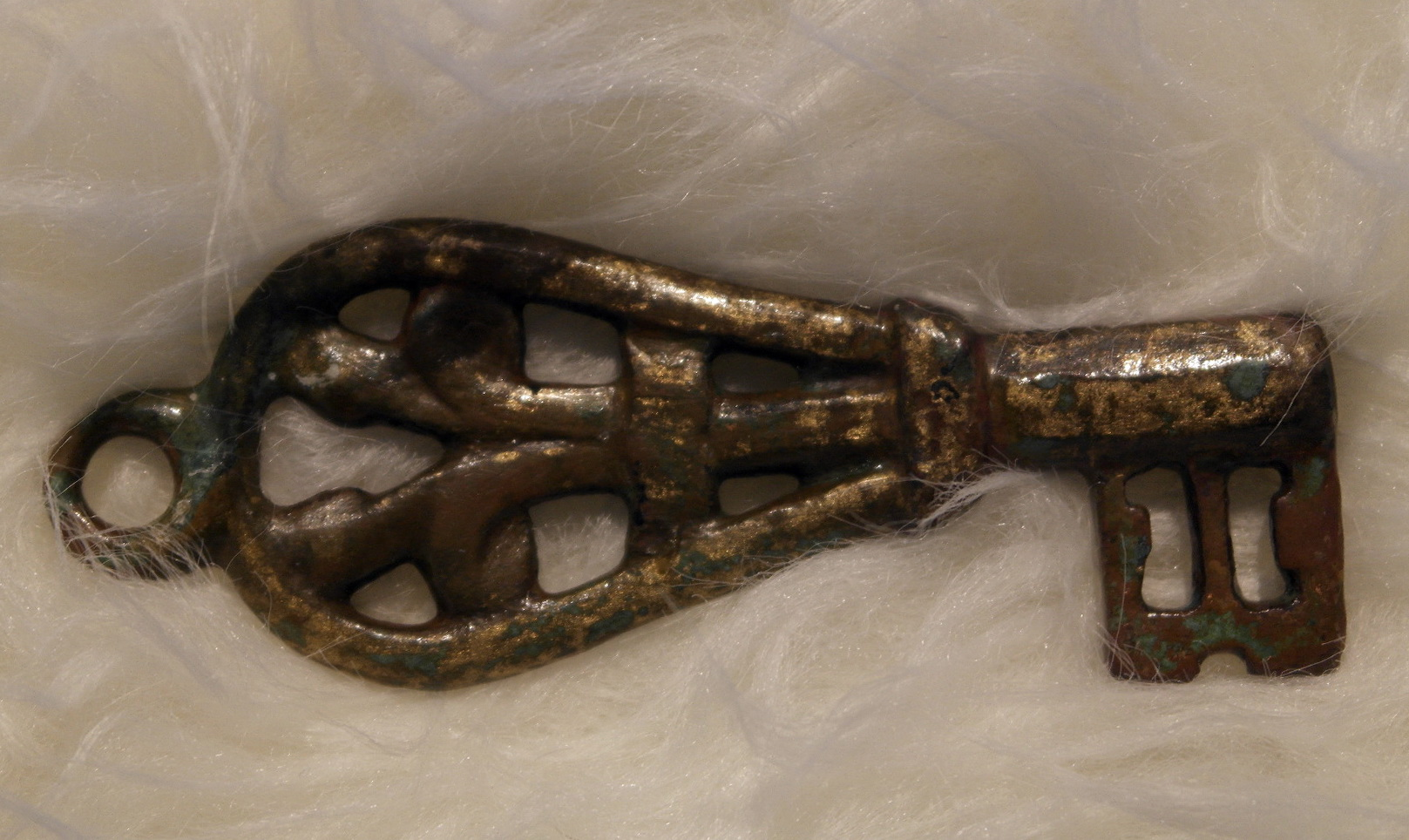 Bronze key (Maastricht, 9th c) in the archeological collection of Centre Céramique, Maastricht, the Netherlands.